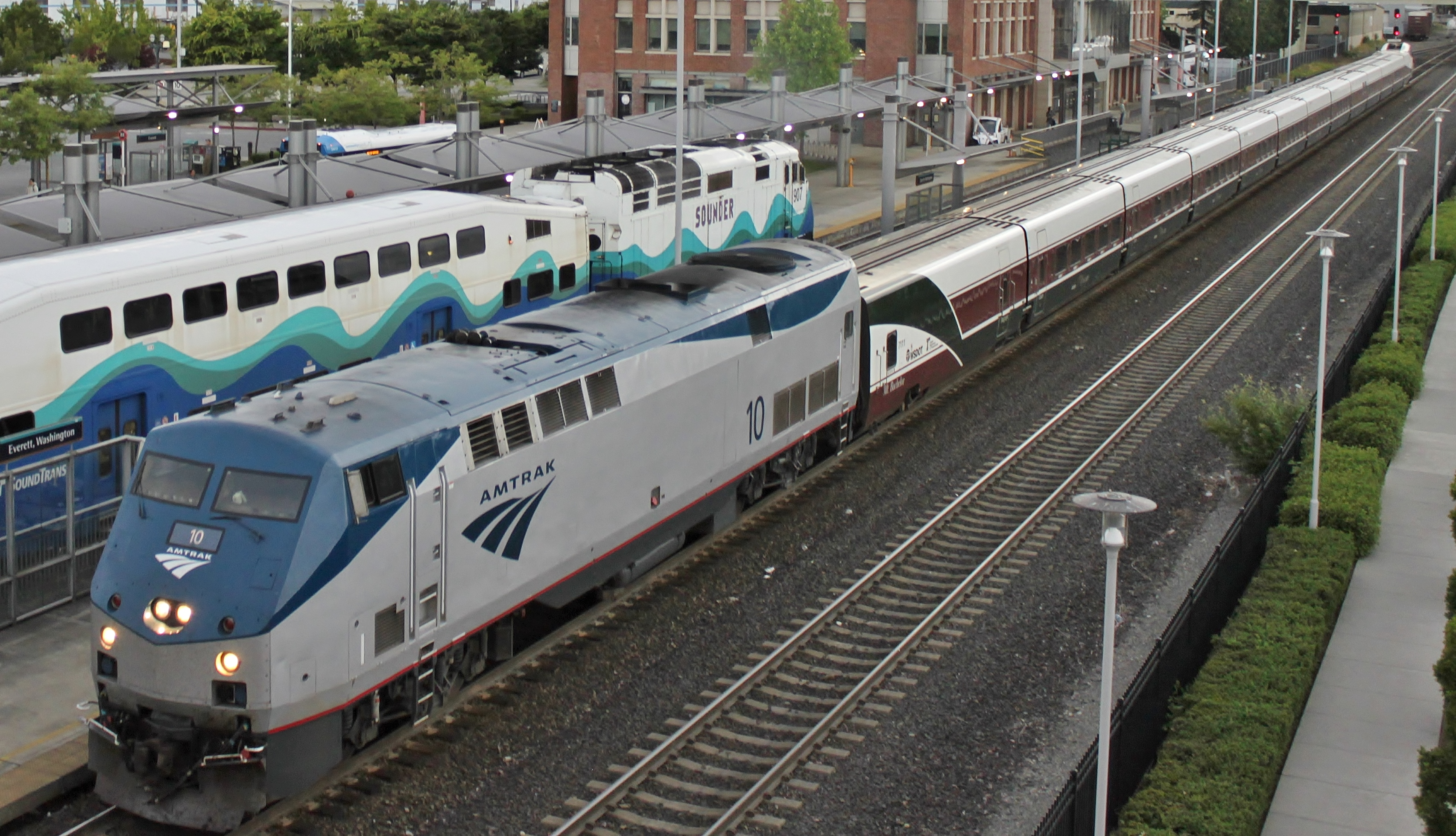 An Amtrak Cascades trainset passing a Sounder commuter train at Everett Station.